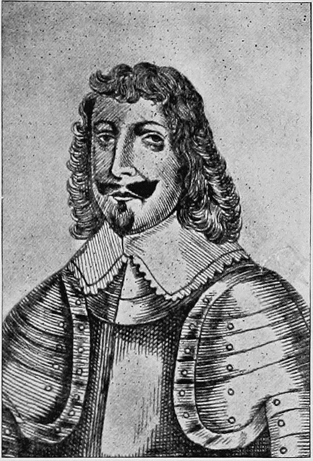 Sydnam Poyntz, an army officer who fought in the Thirty Years' War and the English Civil War. Later governor of the Leeward Islands